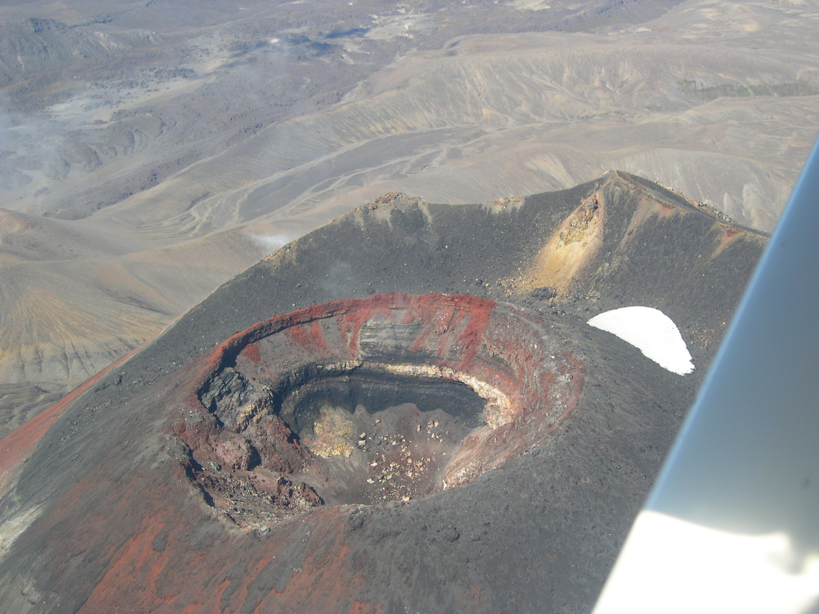 Ngauruhoe New Zealand North Island